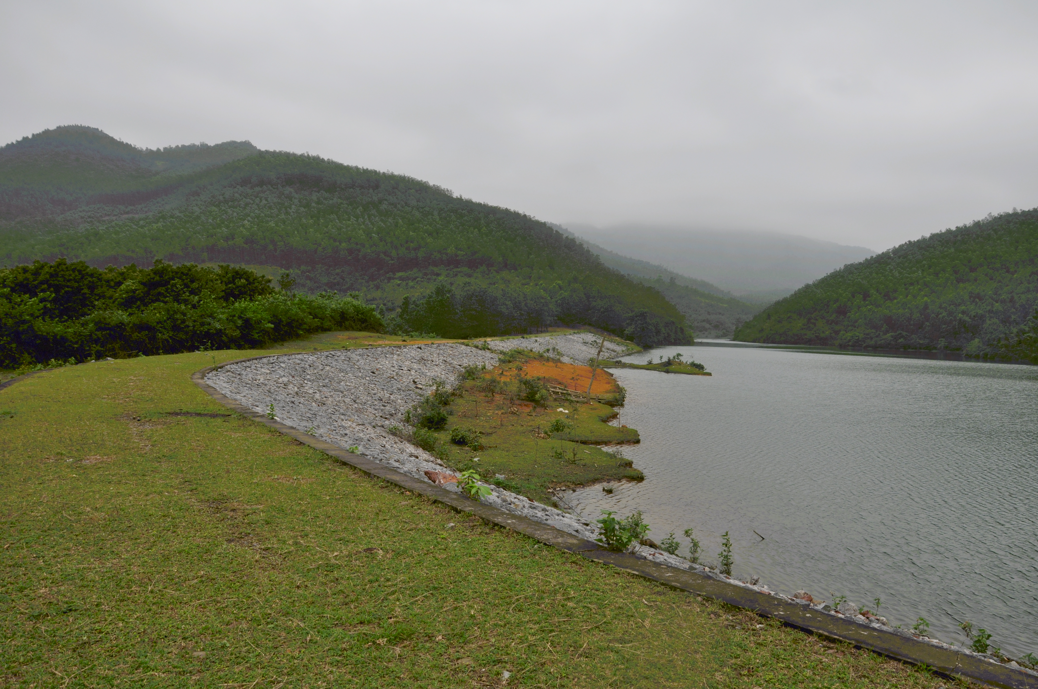 Da Bac River in Uong Bi, Quang Ninh Province, Vietnam